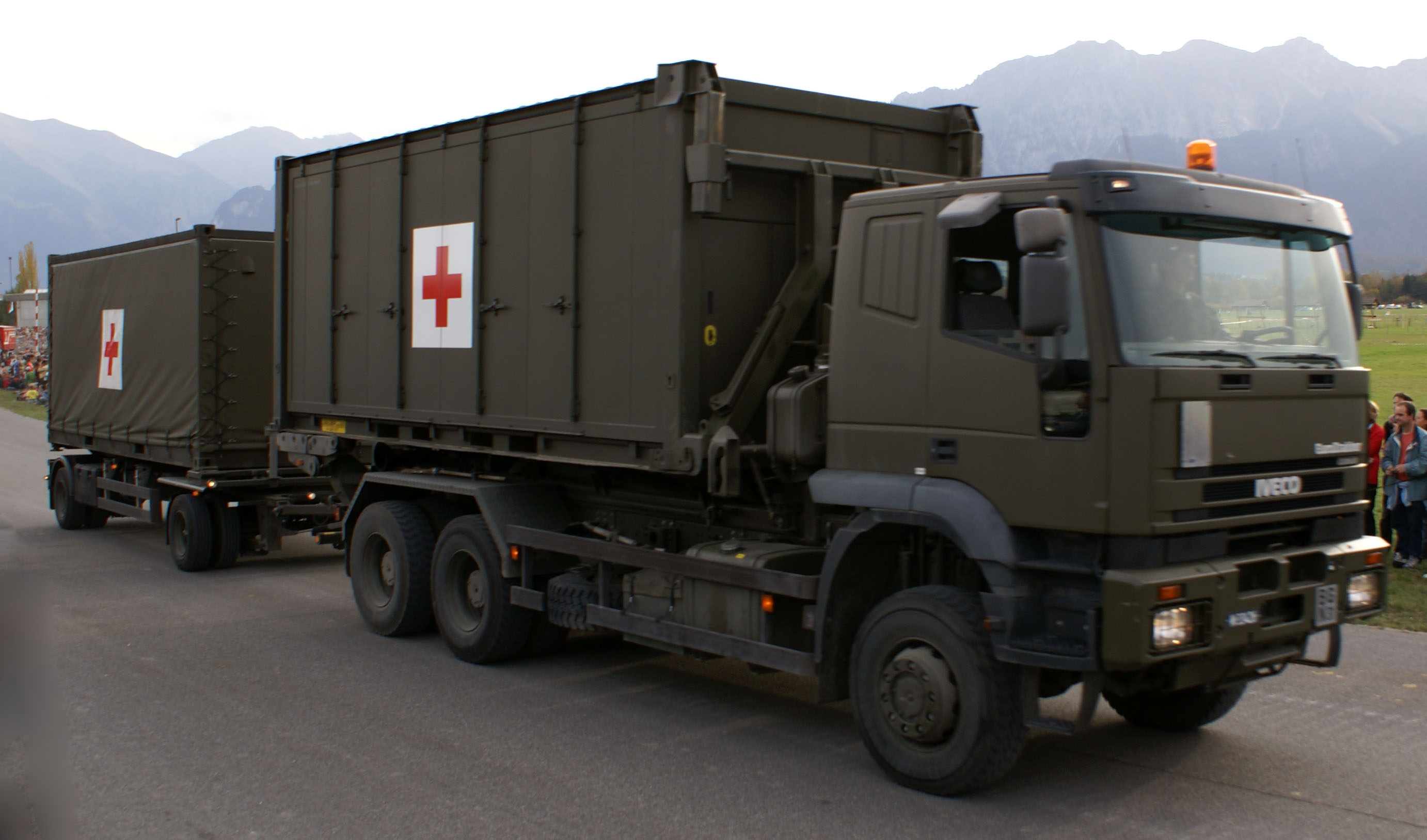 Swiss Army. IVECO transport truck with field hospital cargo module. Participating in the "Steel Parade" of the 2006 Army Days, Thun.